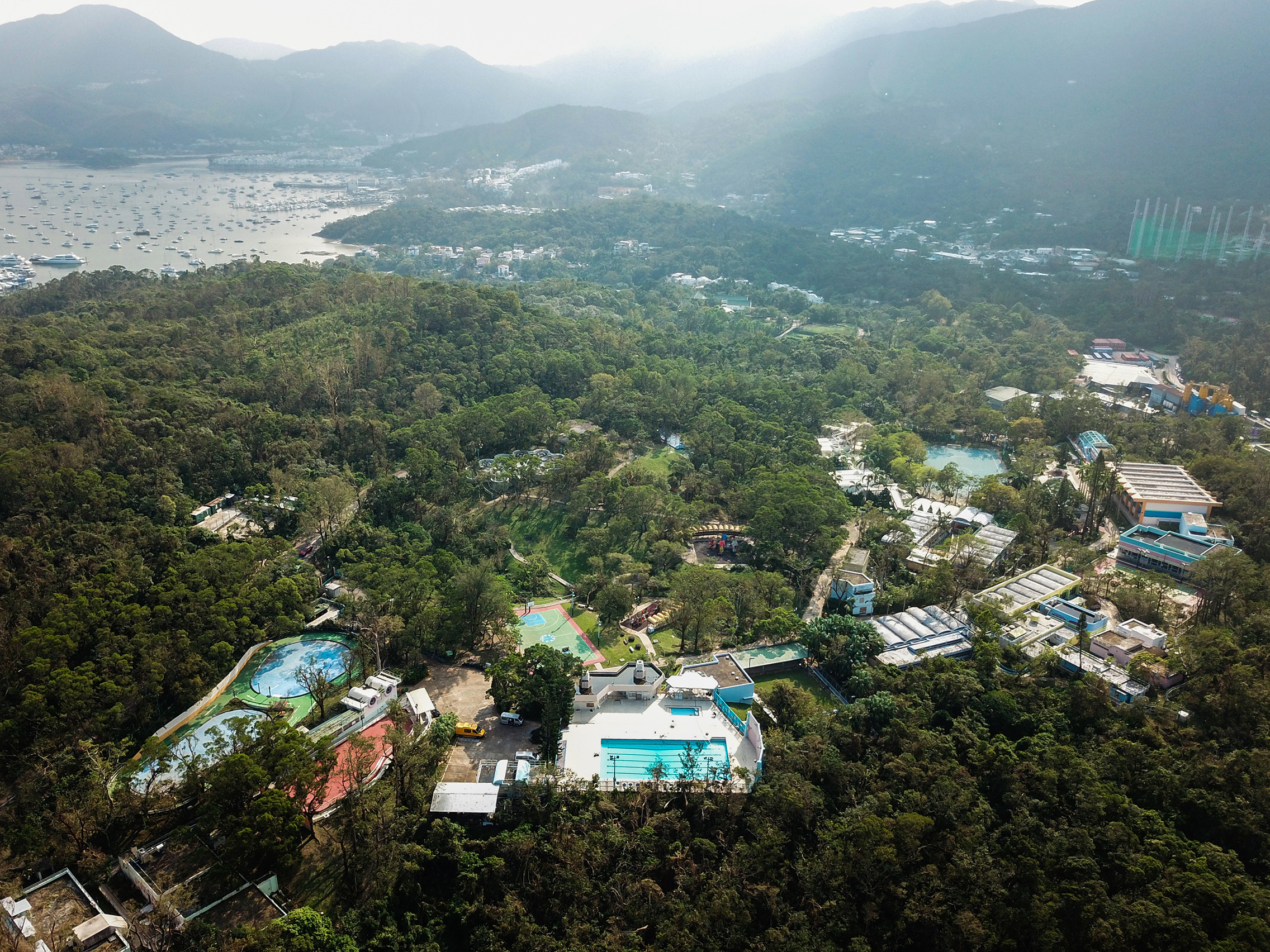 Sai Kung Outdoor Recreation Centre